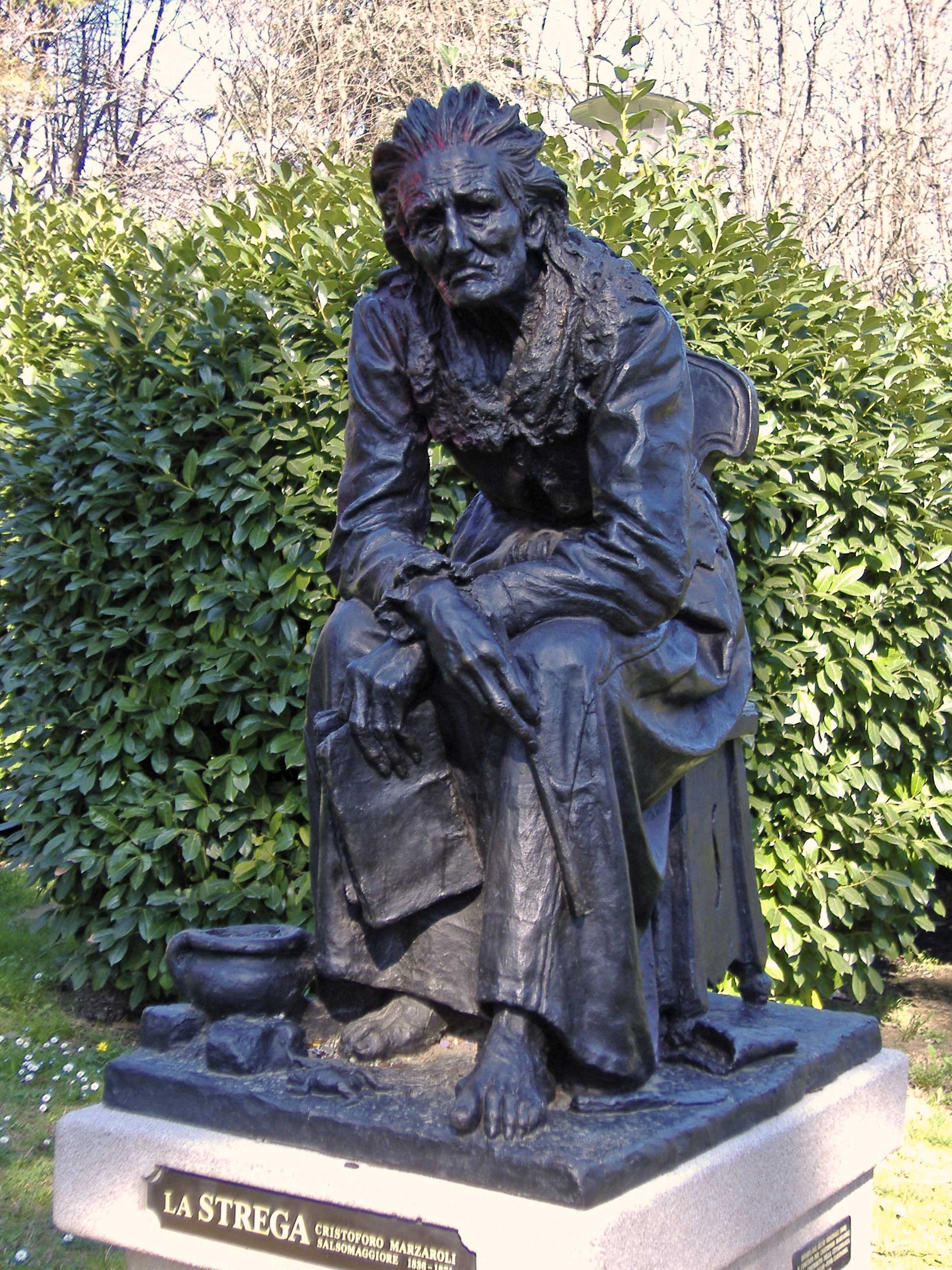 "La strega" (The witch), statue by Cristoforo Marzaroli - Salsomaggiore Terme (Italy)